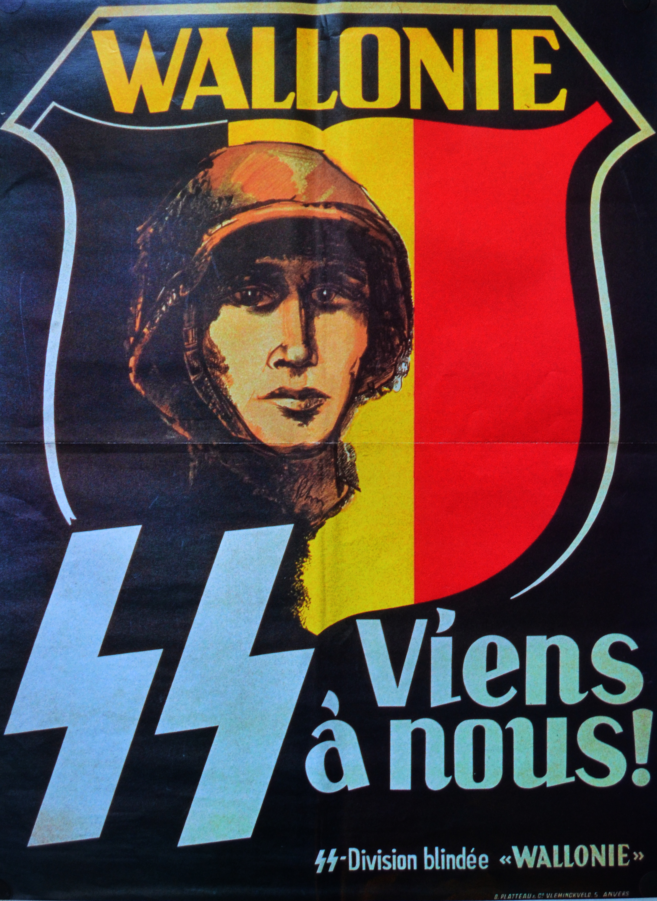 Propaganda from the Waffen-SS. SS-Division blindee "Wallonie"